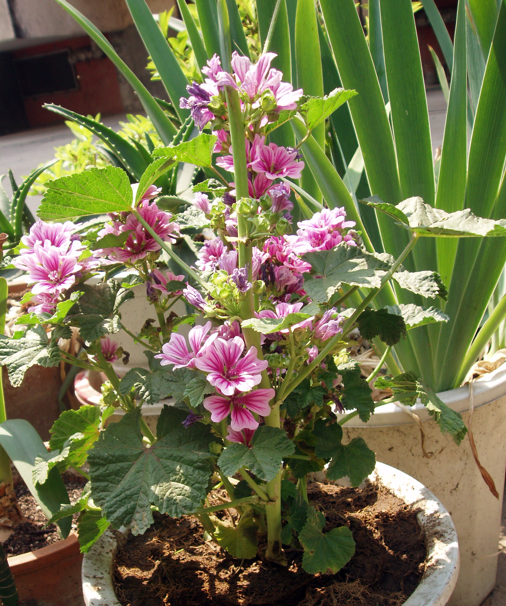 Mallow flowers